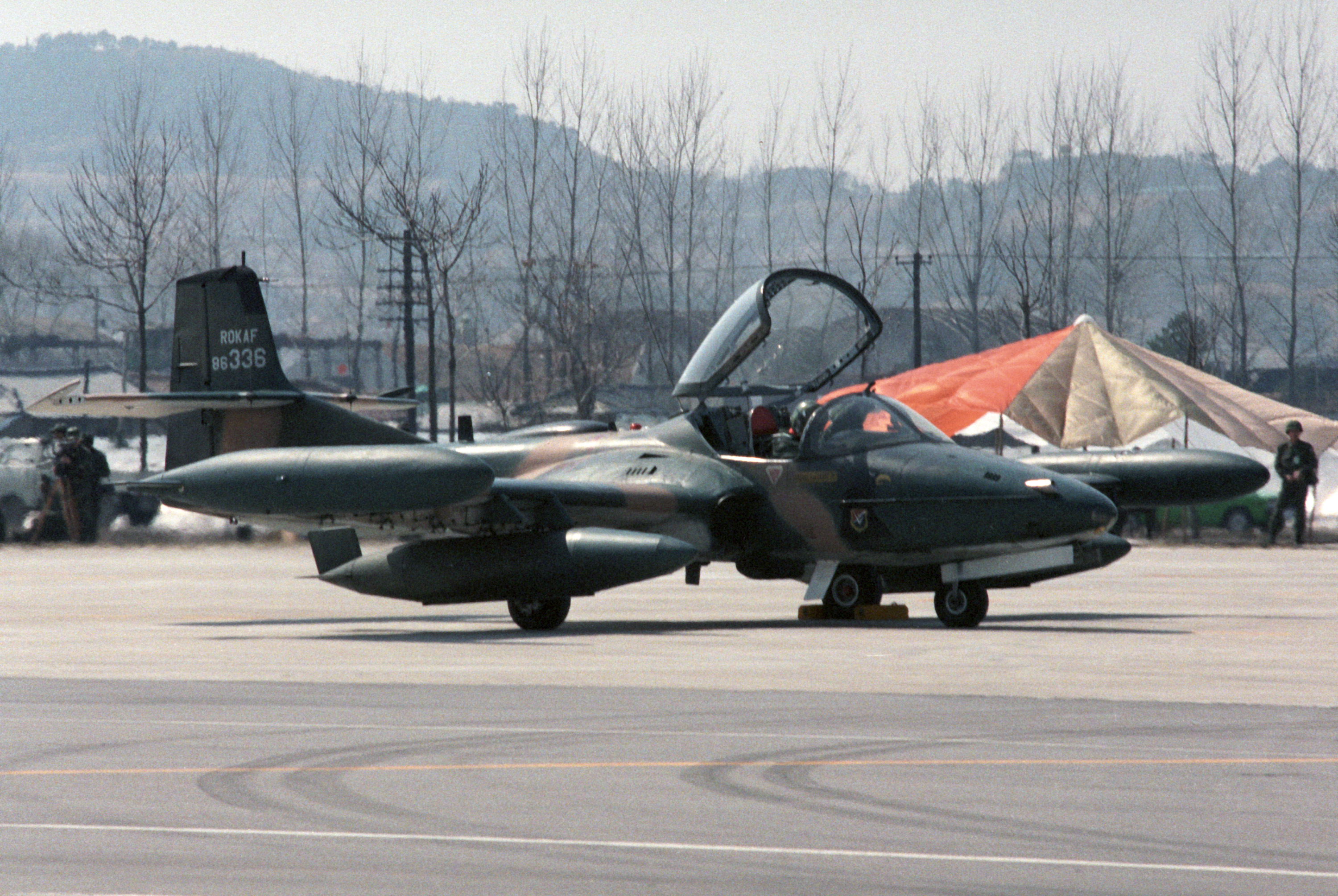 A Republic of Korea Air Force Cessna A-37B Dragonfly aircraft (USAF s/n 69-6336) is parked on a highway during the joint US and South Korean Exercise "Team Spirit '86" on 25 March 1986. The highway was being used by various aircraft for emergency landing training. This aircraft crashed while being operated by 239th Special Flying Squadron Black Eagles during an aerobatic display at Suwon air base, Korea, on 5 May 2006. The pilot was killed.